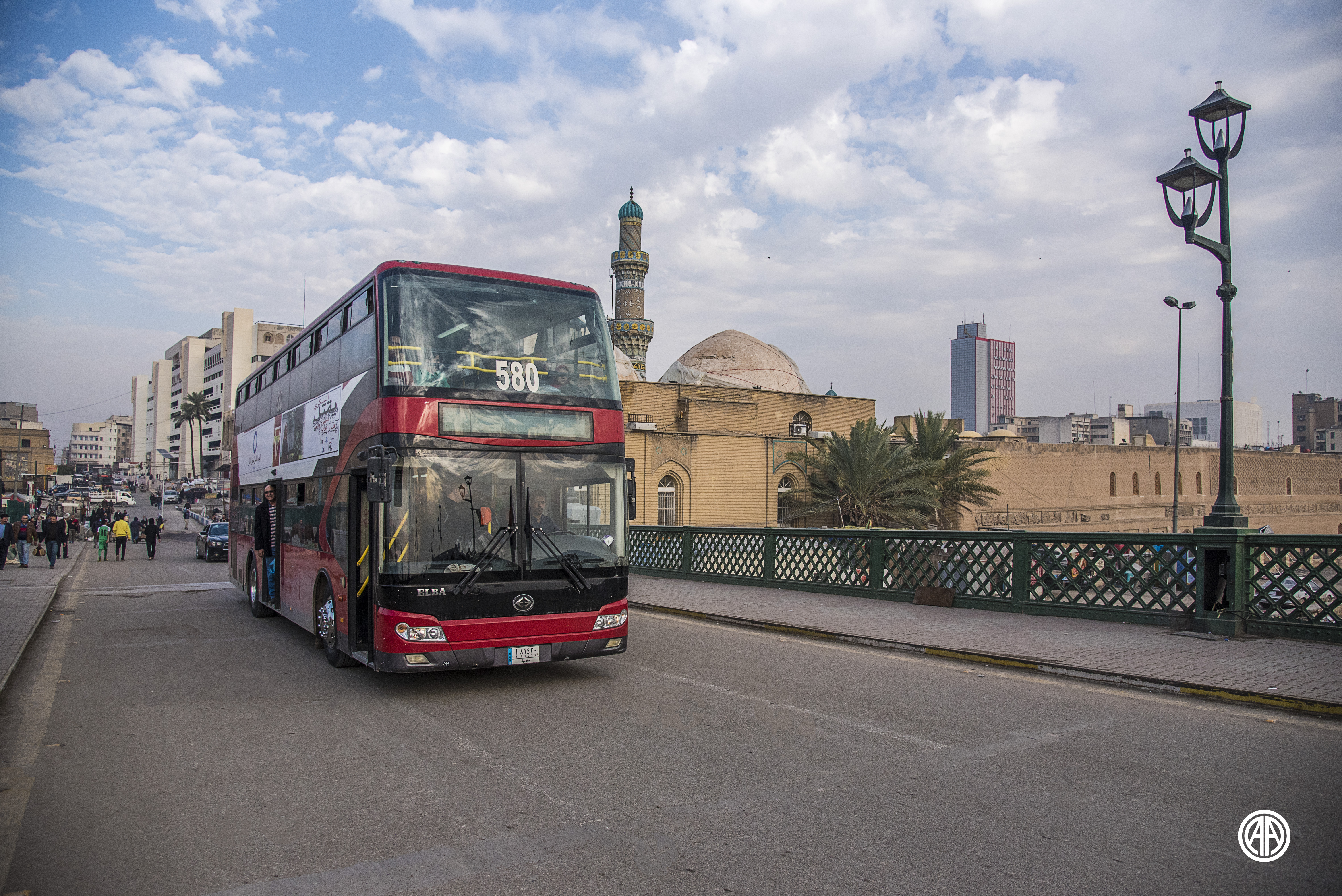 In Baghdad on the Martyrs Bridge near the Mustansiriya school